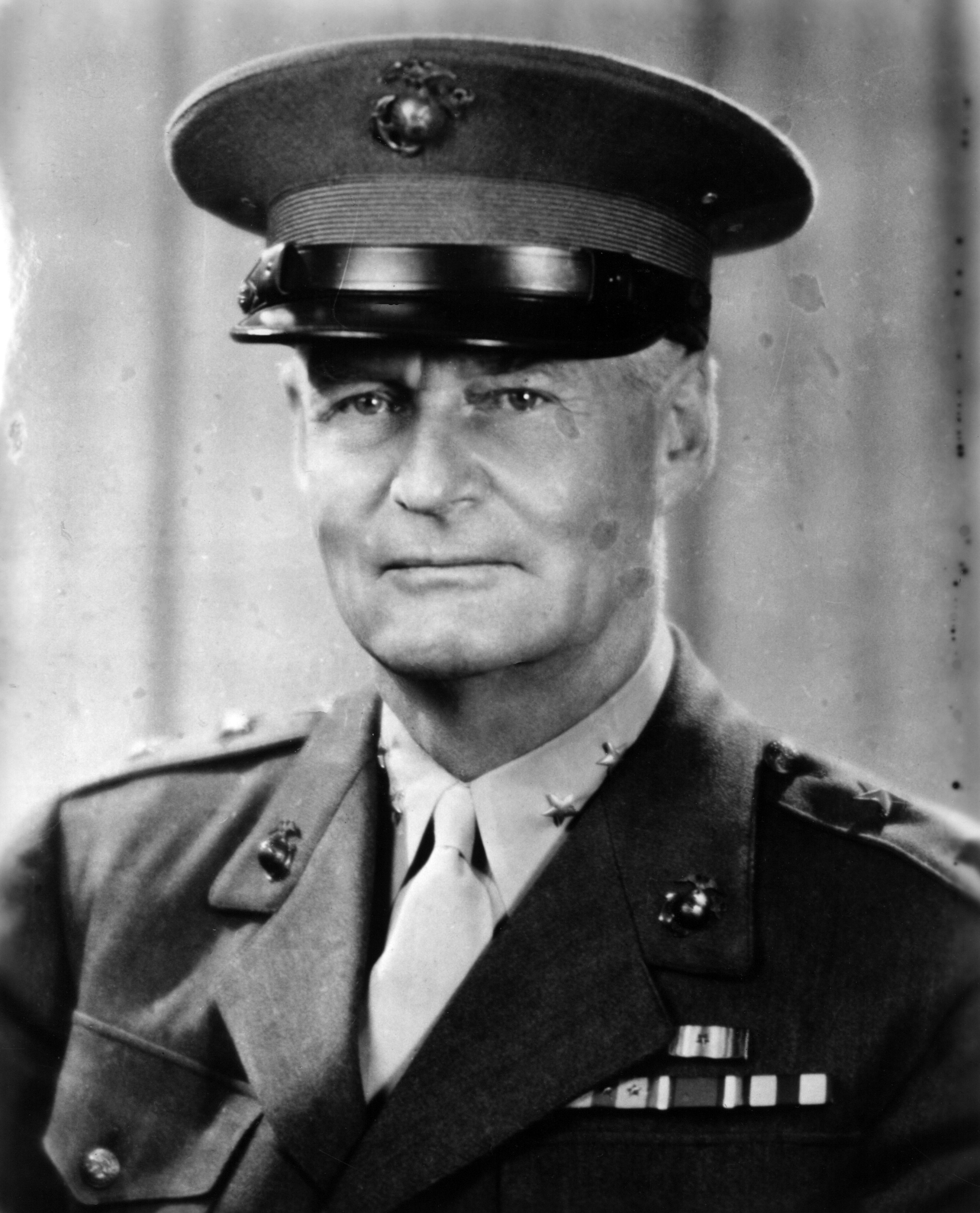 Philip Huston Torrey (July 18, 1884 - June 7, 1968) was an Officer of the United States Marine Corps with the rank of Major general, who served as Commanding General of 1st Marine Division in World War II.